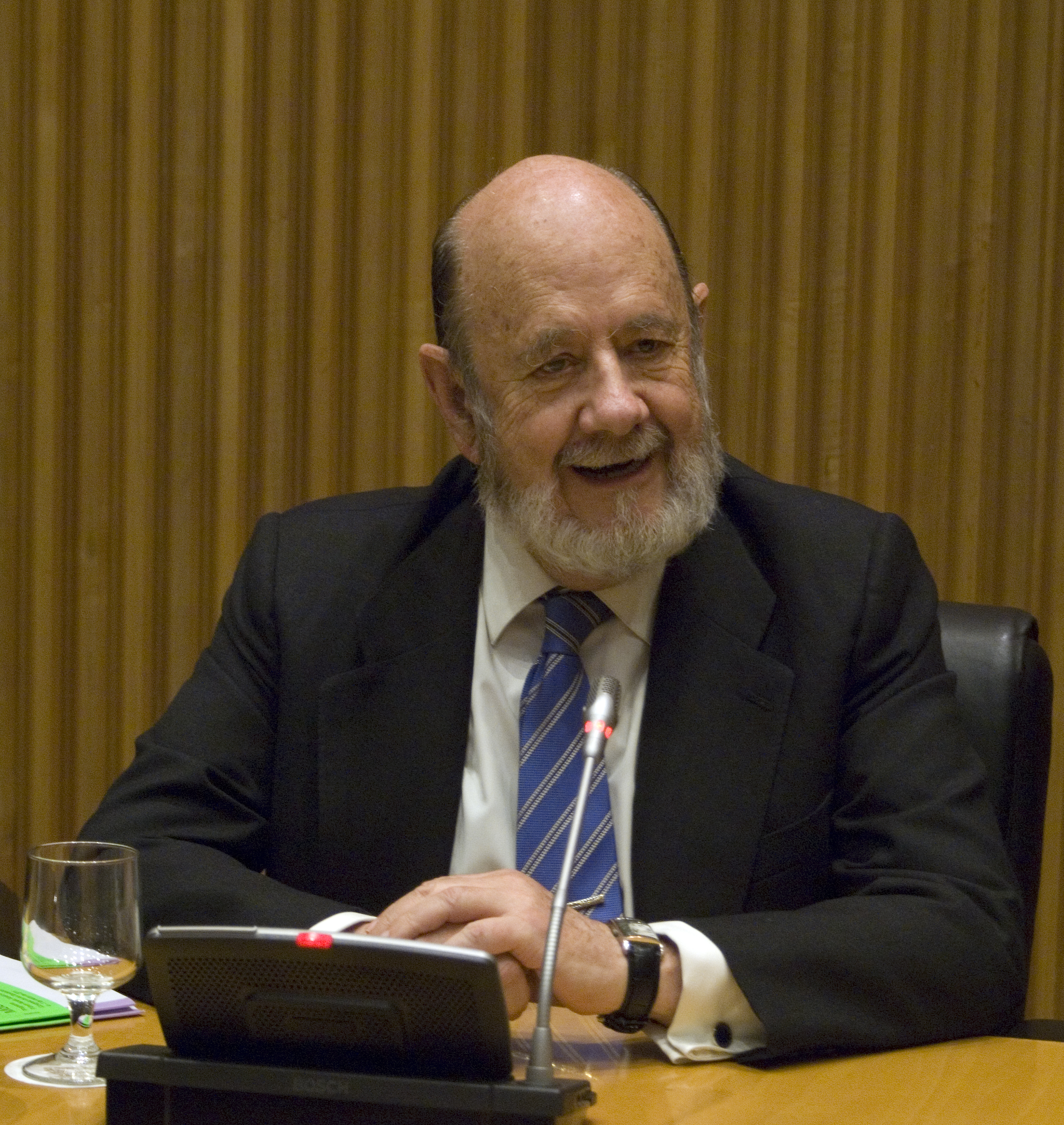 José María Gil-Robles y Gil-Delgado, Spanish politician, president of the European Parliament between 1997 and 1999.